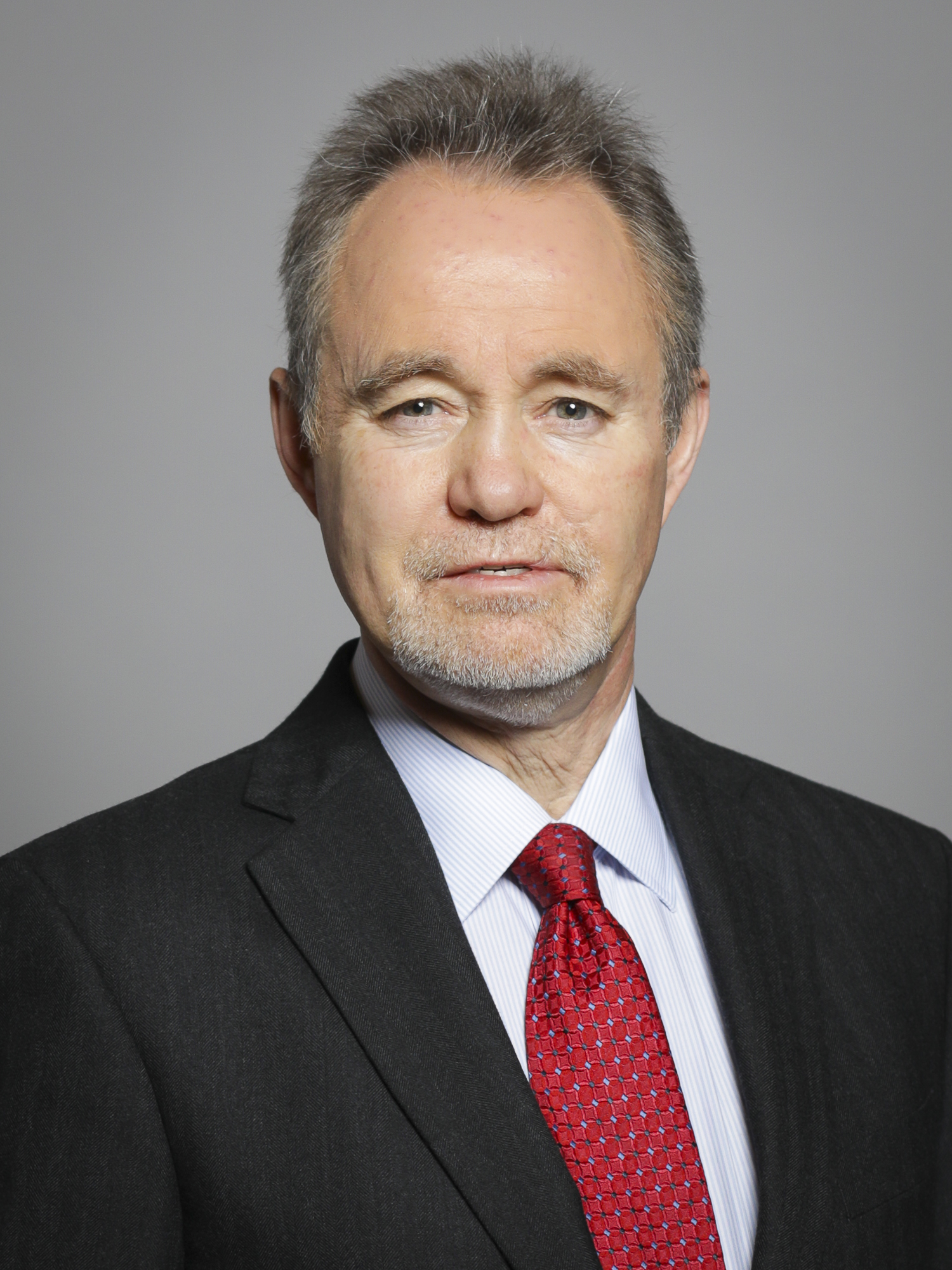 Official portrait of Lord Truscott 3×4 portrait of Lord Truscott